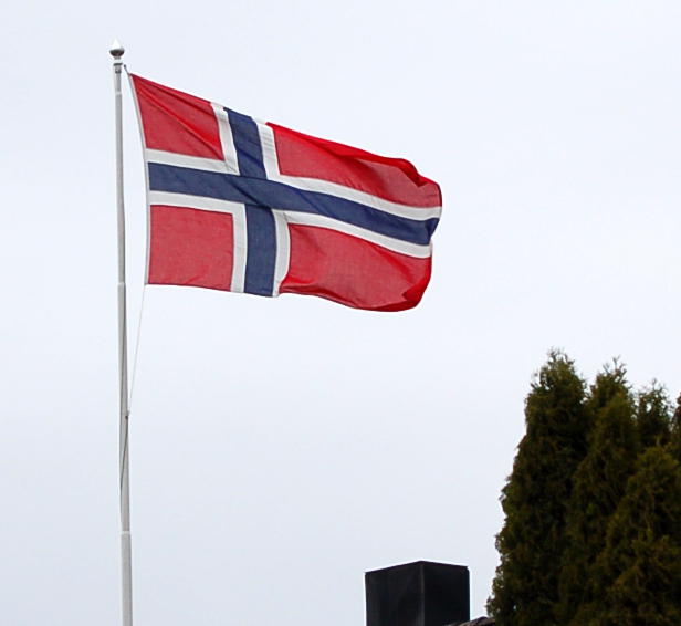 A Norwegian flag on the top of a flagpole, in strong wind.